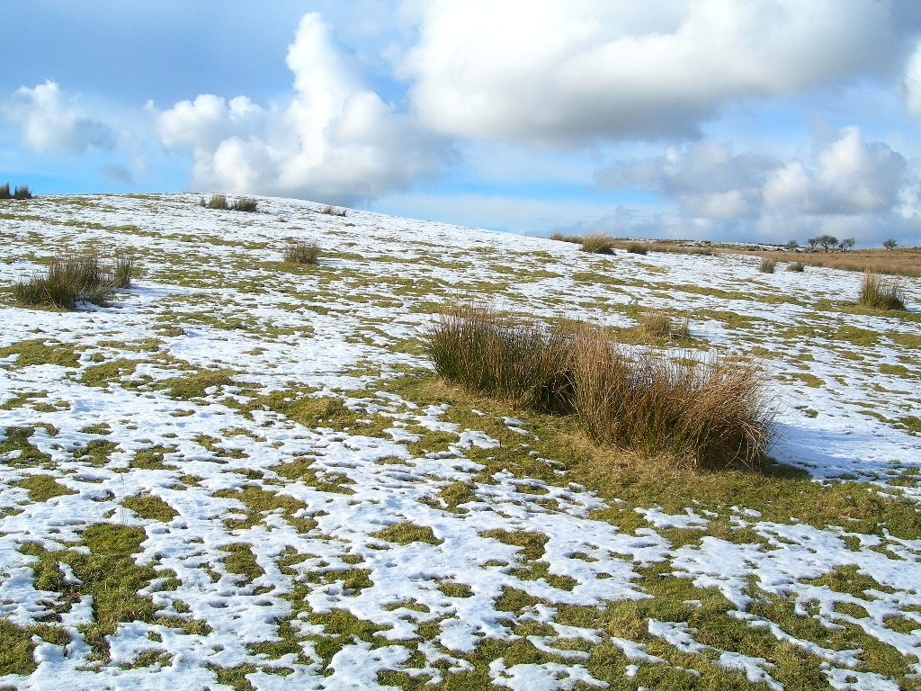 Thawing Snow in Glen Tig Thawing snow on the grazing land to the north of Glen Tig, looking towards Knockdhu.